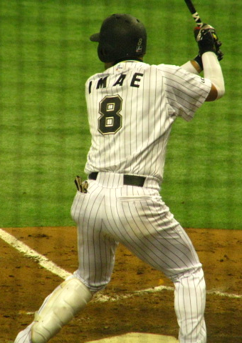 Toshiaki Imae, infielder of the Chiba Lotte Marines, at Tokyo Dome.